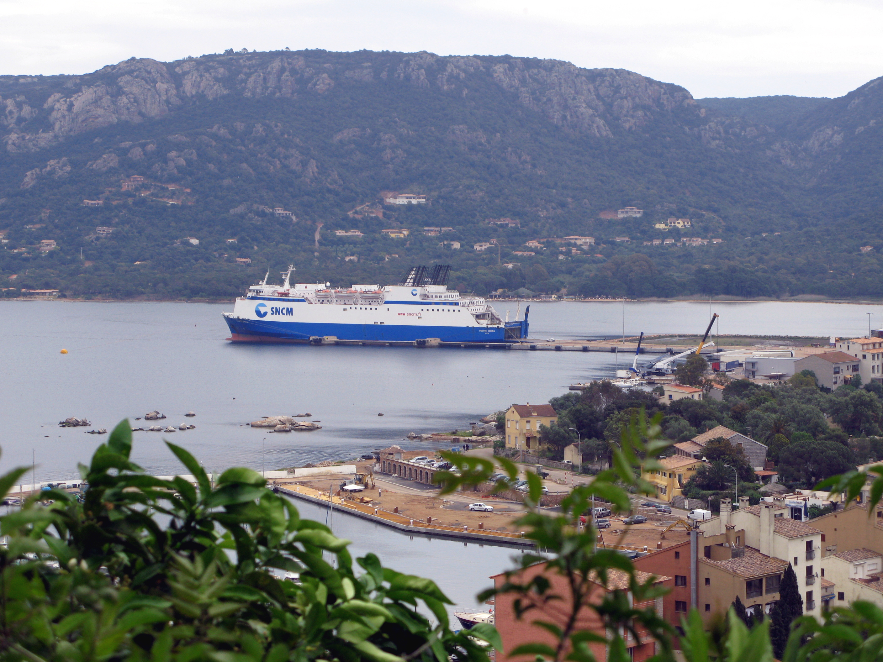 Porto-Vecchio (Corse-du-Sud, France) Monte d'Oro IMO Number: 8911516 MMSI Number: 227182000 Callsign: FNIA Length: 144 m Beam: 30 m